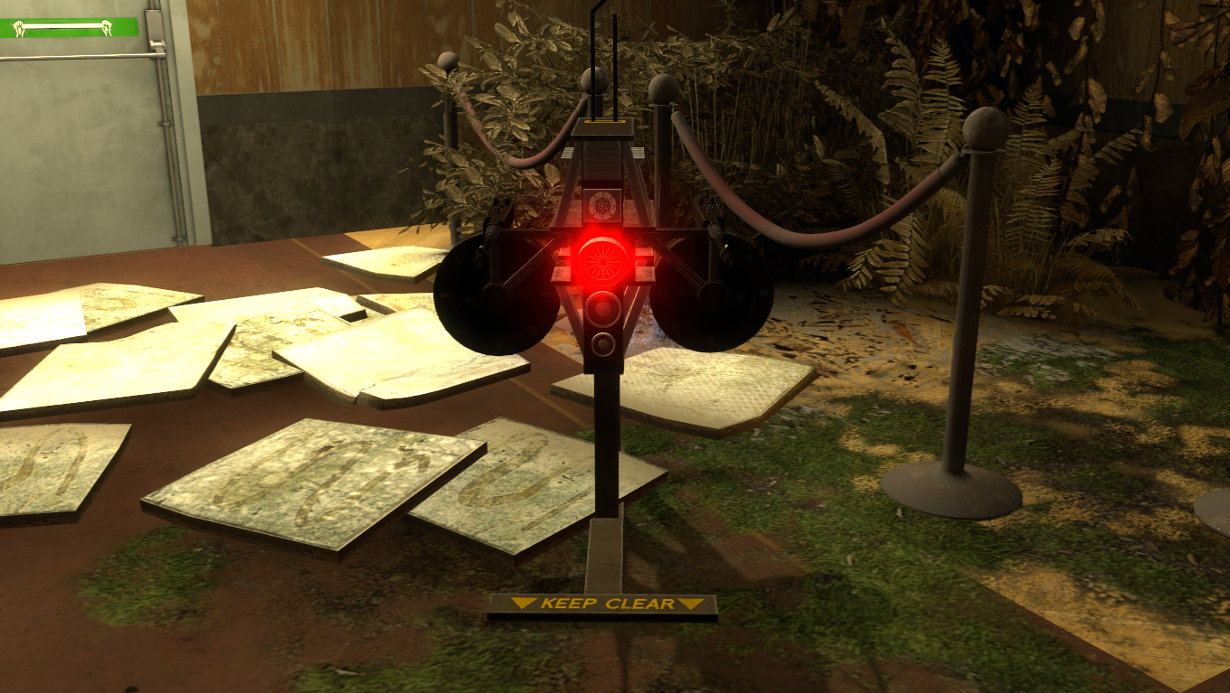 The Old turret. Screenshot of the game Portal Stories: Mel. Authorized upload after making a request to Prism Studios Ltd.